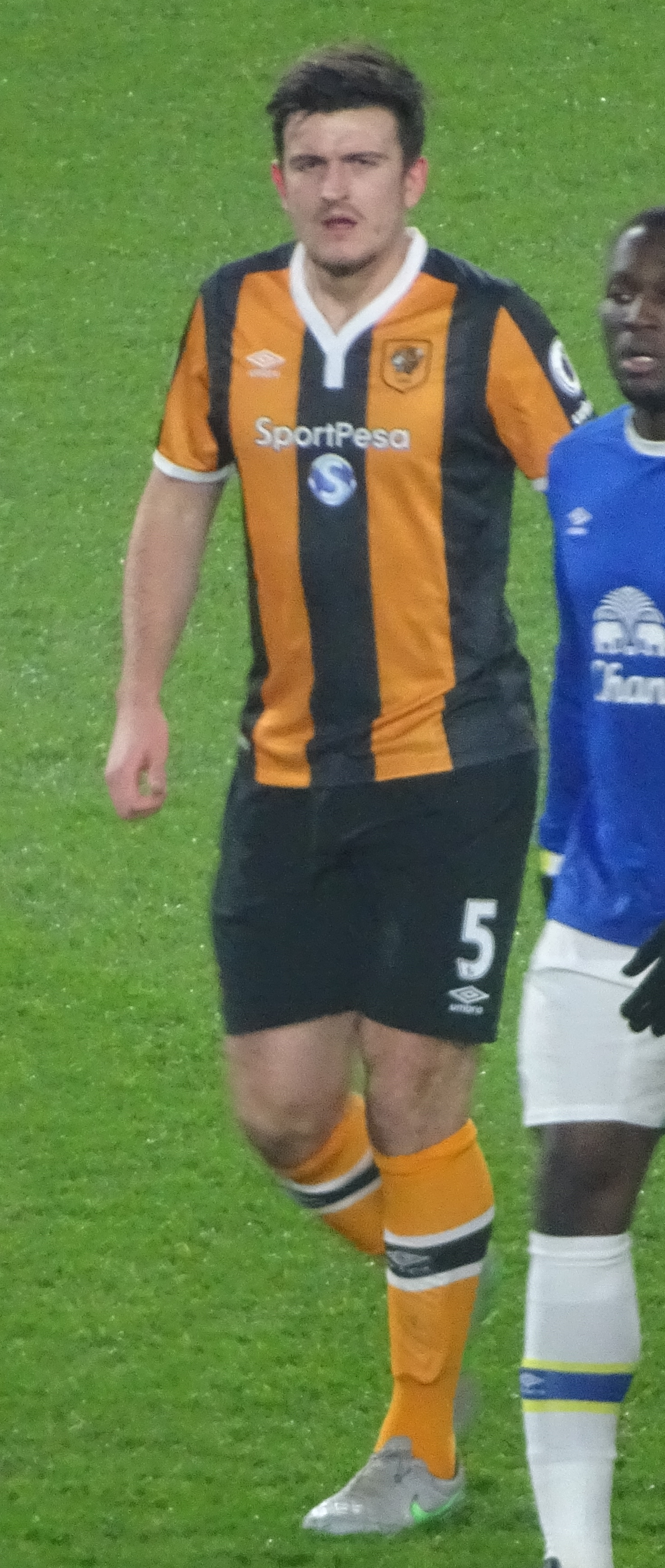 Davis and King Harry the bread